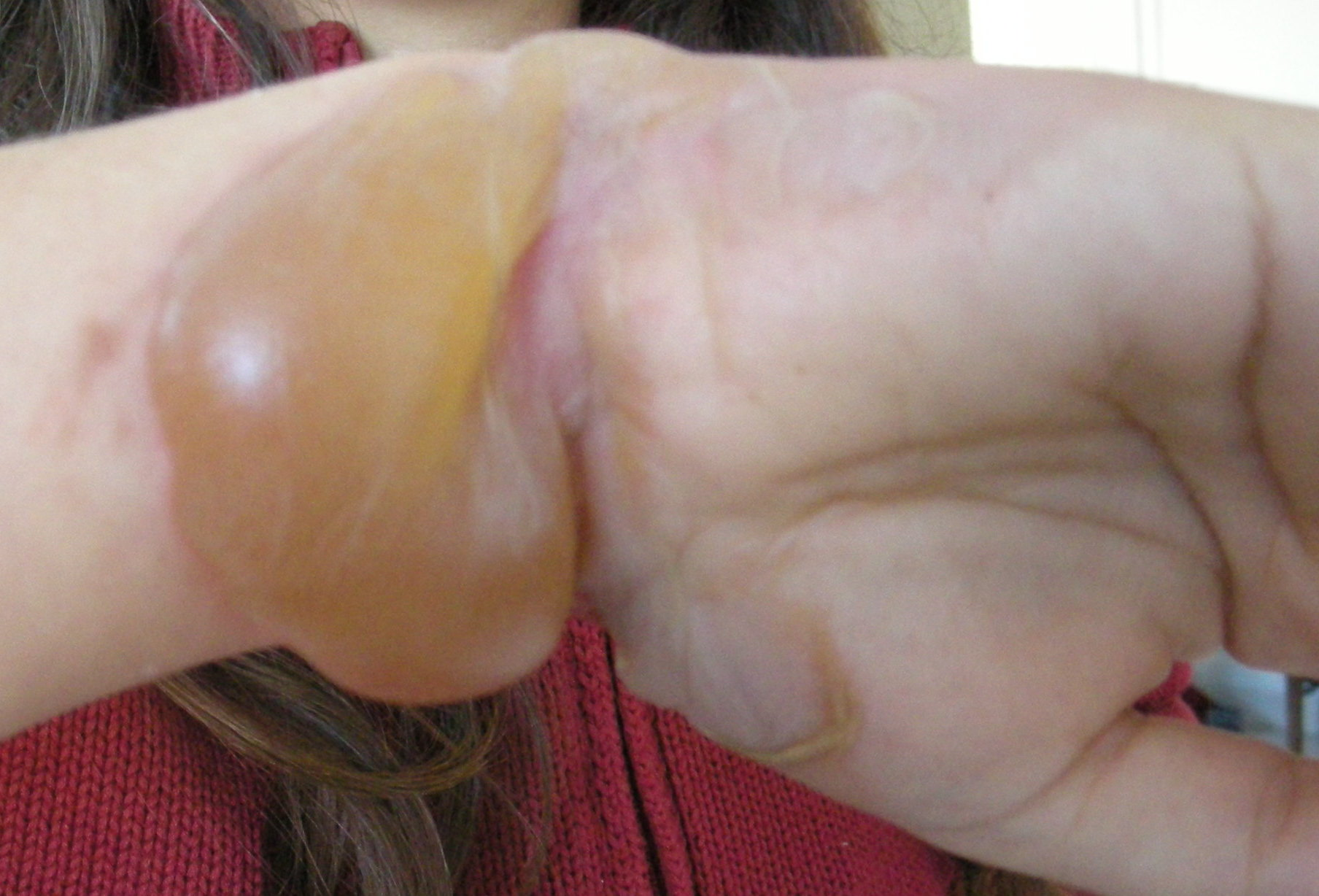 Blister caused by hot coffee burn